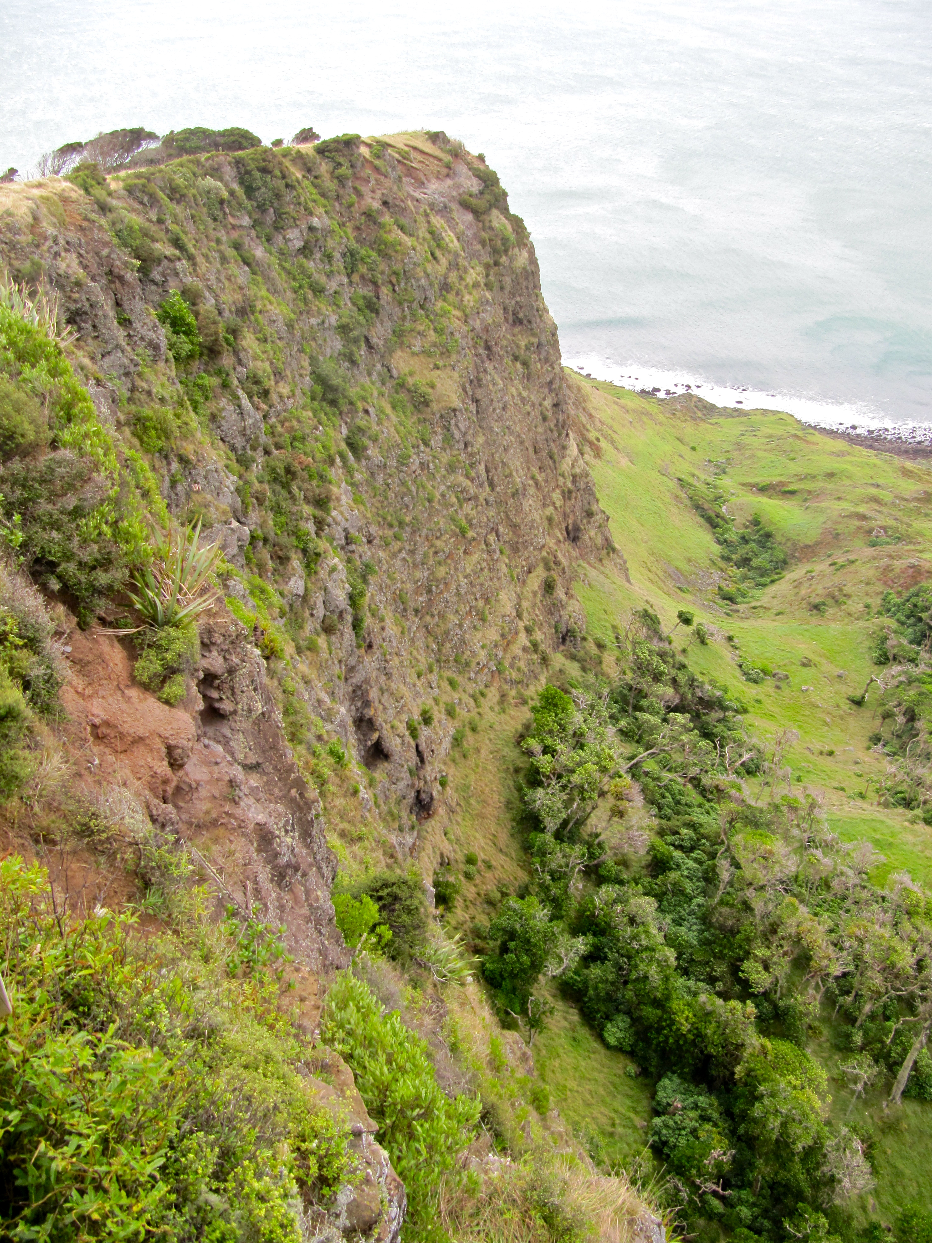 view from lookout platform